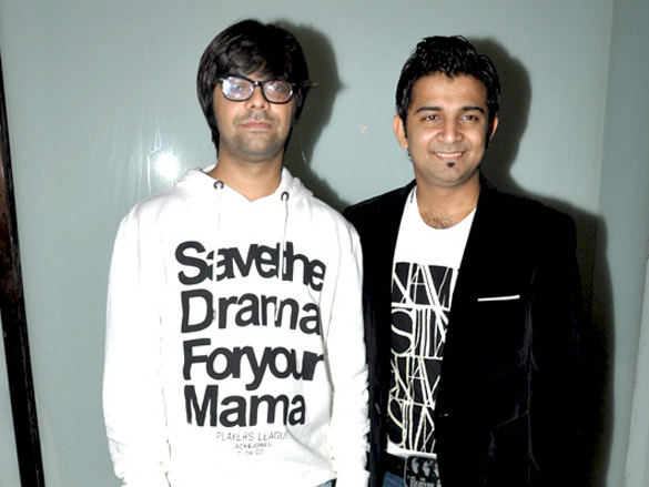 Music director duo Sachin Sachin Sanghvi and Jigar Saraiya attending the music success bash of Hum Tum Shabana.